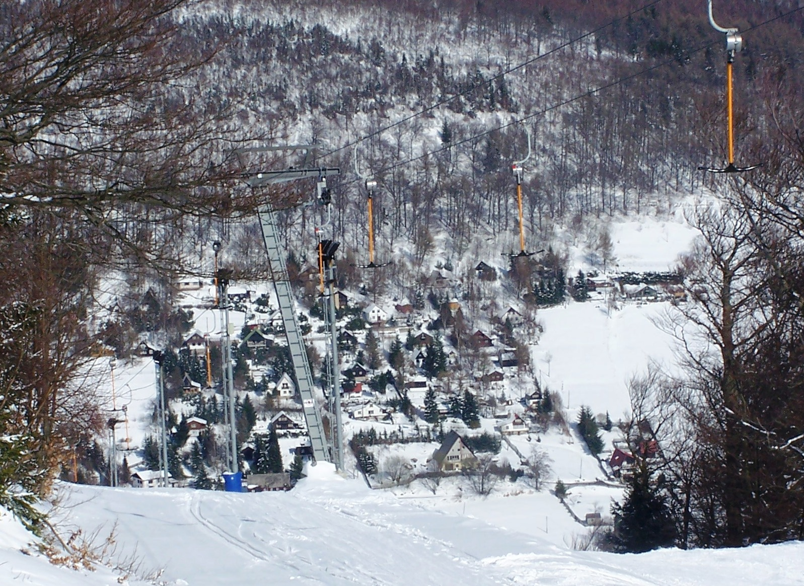 Mikulov (German name: Niklasberg) in okres Teplice, Czech Republic as seen from the mountain Bouřňák/Stürmer